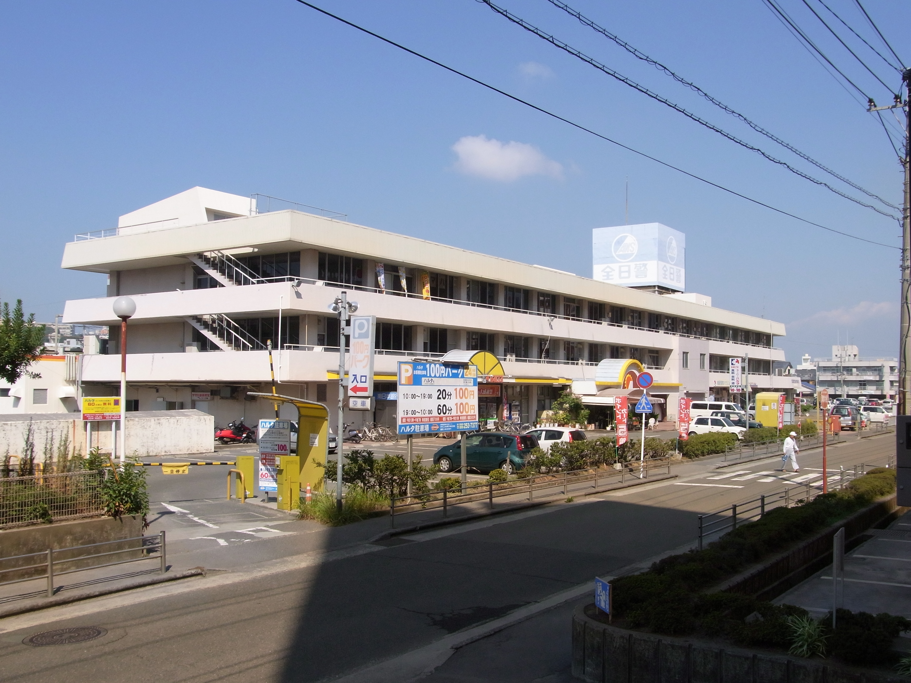 A terminal building of old Kagoshima airport before it has moved to Kirishima City.